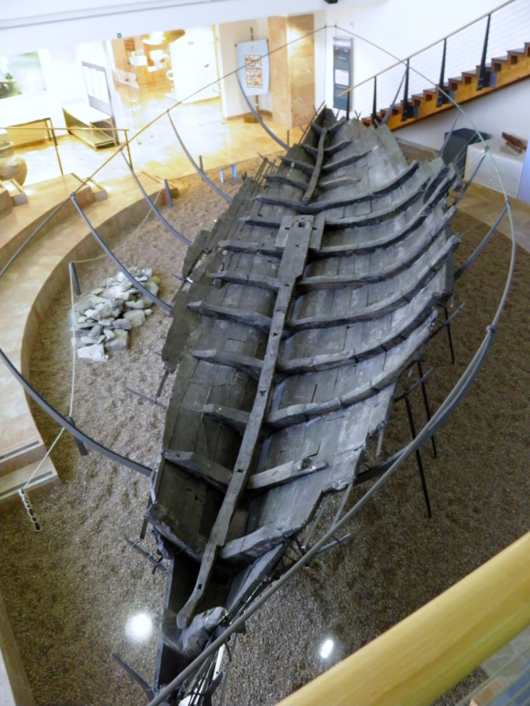 Ancient ship uncovered off the coast of Maagan Michael, Israel. On display in the Hecht Museum, Haifa.